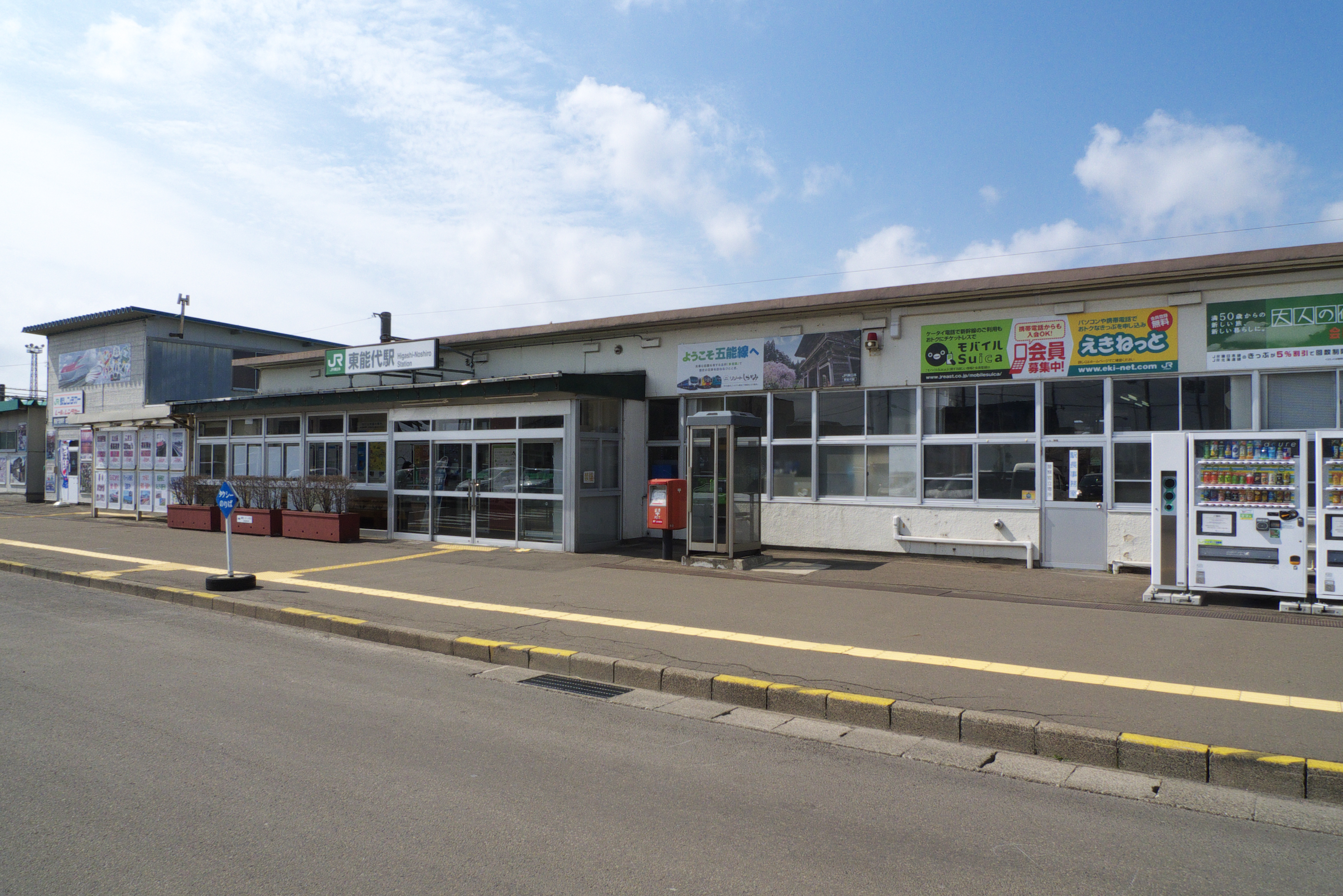 Higashi-Noshiro Station on the JR East Ou Main Line